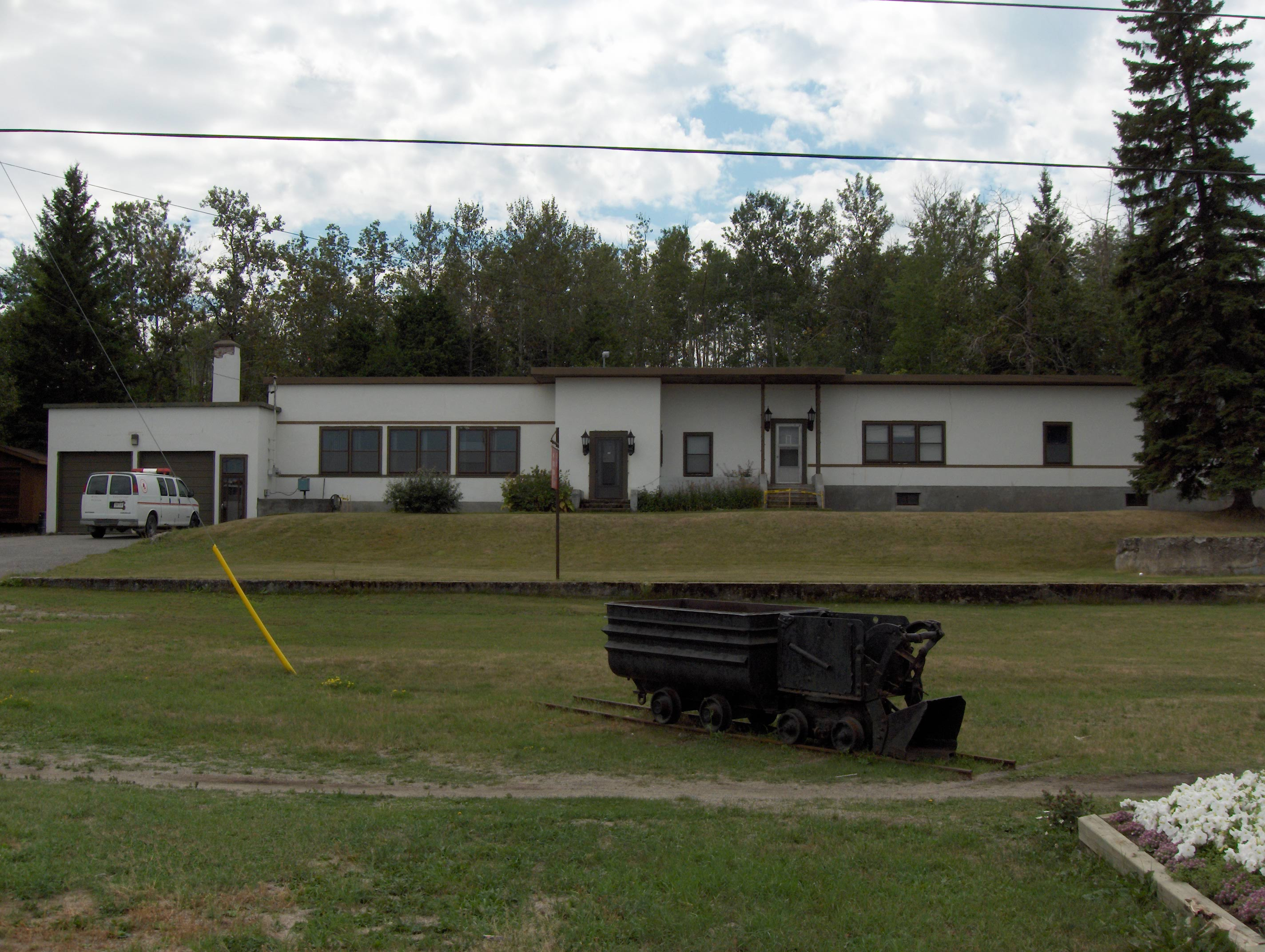 Author - Monogram Source - HP Photosmart R717